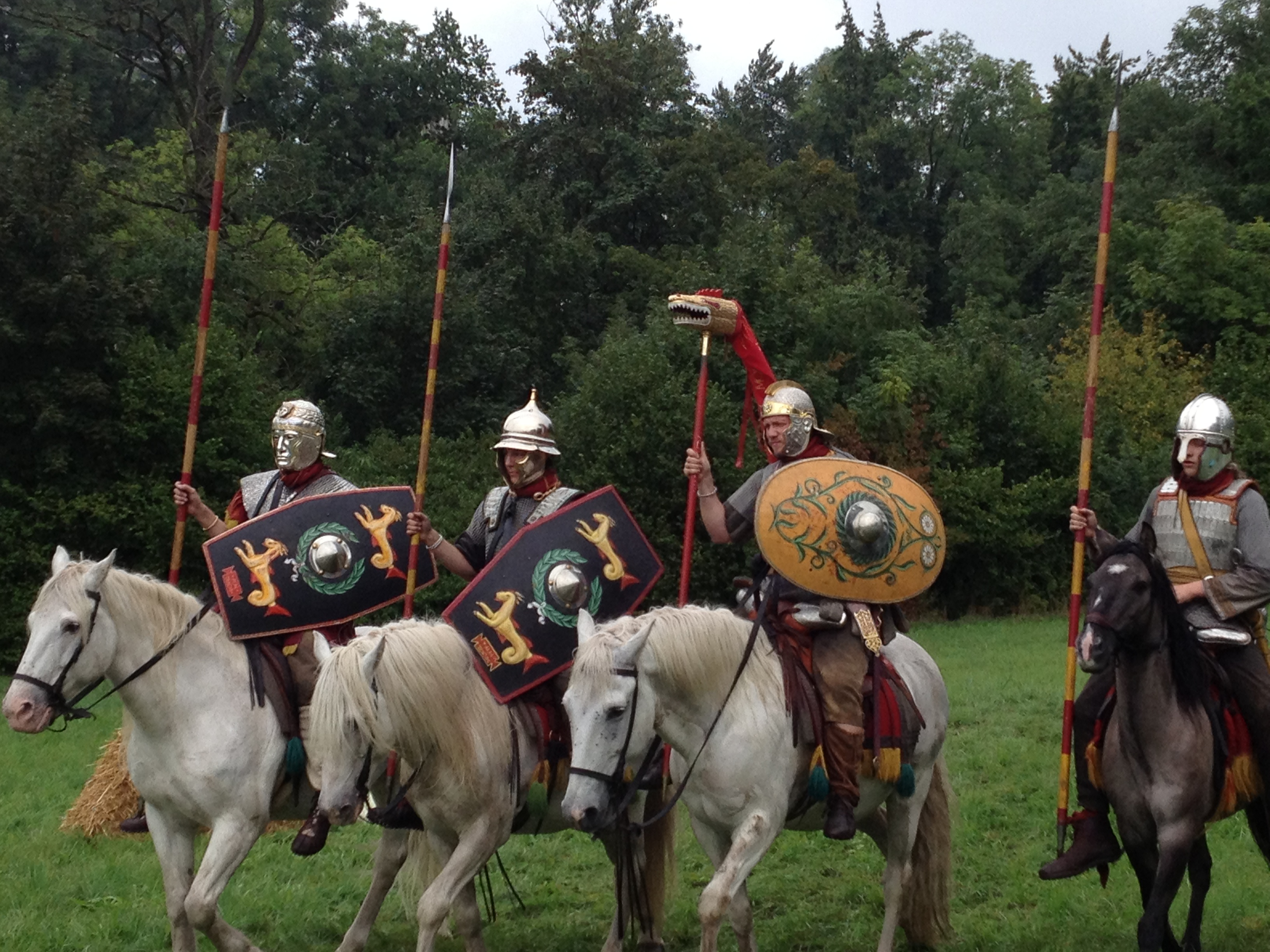 Roman Cavalry Reenactment - Roman Festival at Augusta Raurica - August 2013-026